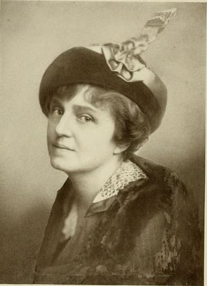 July H. Thomson, Mrs Charles Cummings Collins, Gerhard Sisters Photo, Johnson, Anne (André) "Mrs. Charles P. Johnson", 1871-. Notable women of St. Louis, 1914; (Kindle Location 4402). [St. Louis, Woodward.]